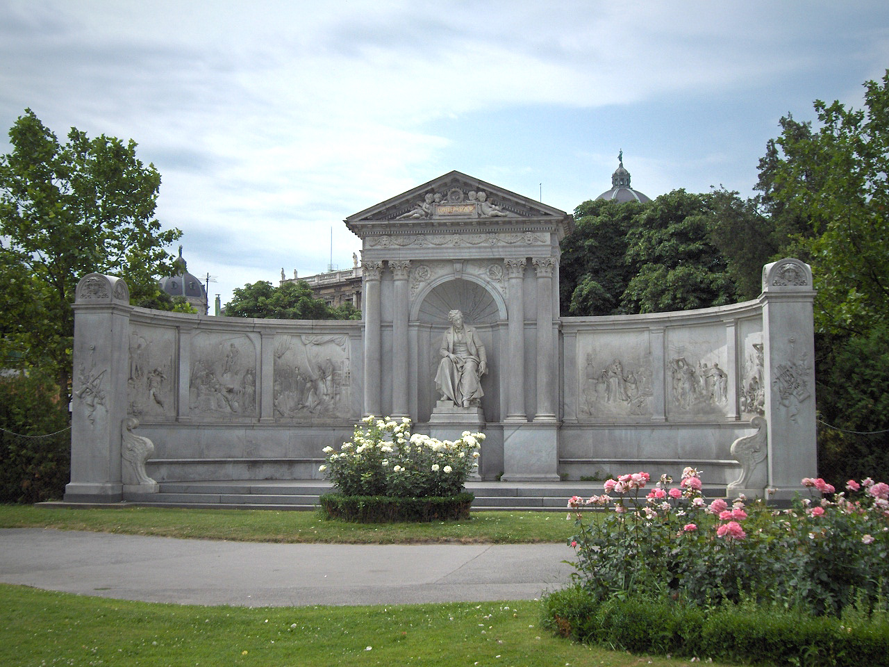 monument for the poet Franz Grillparzer in the Volksgarten, Vienna, Austria